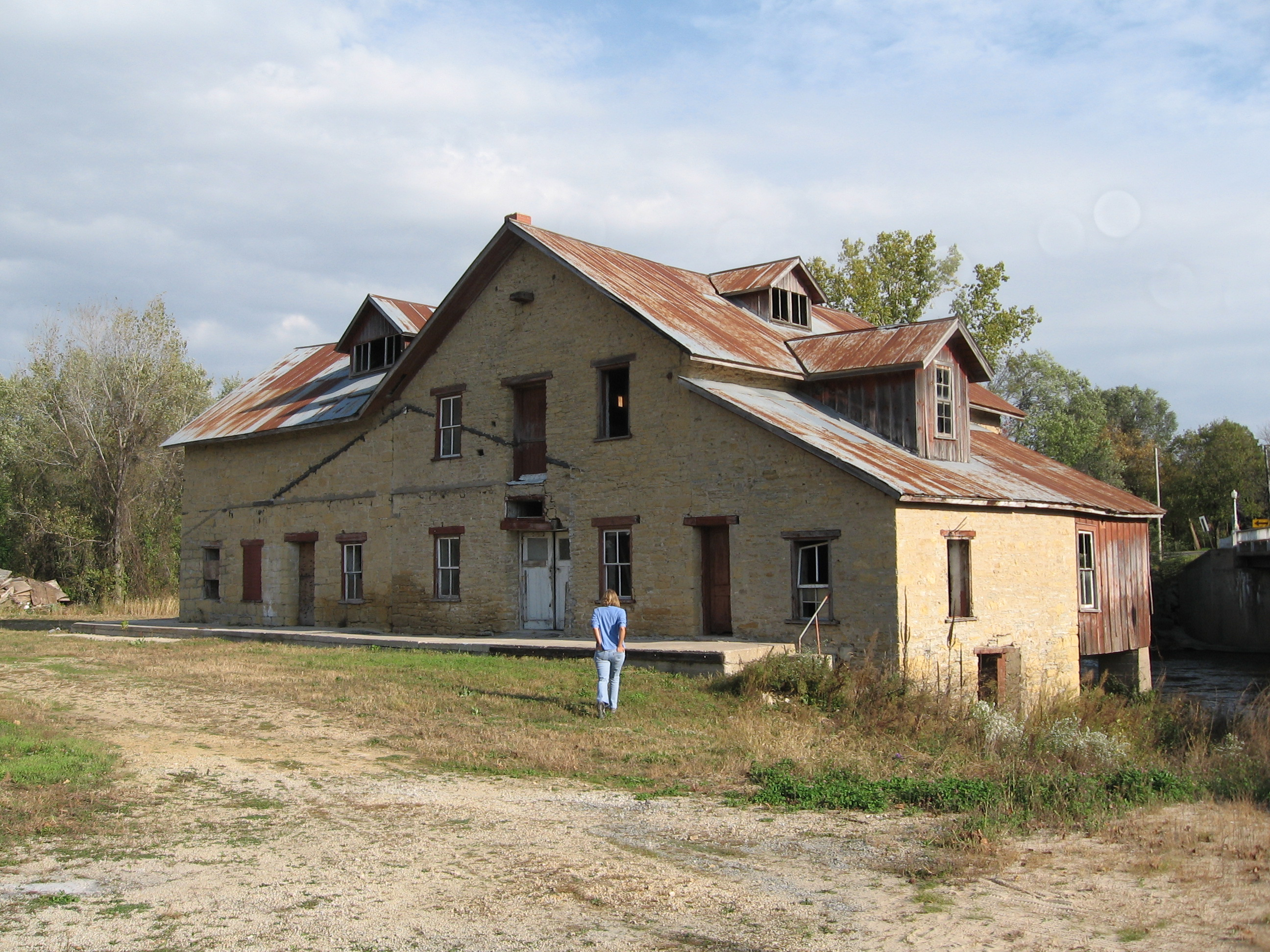 Mill at Spillville, Iowa